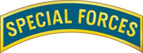 Metal United States Army Special Forces Tab